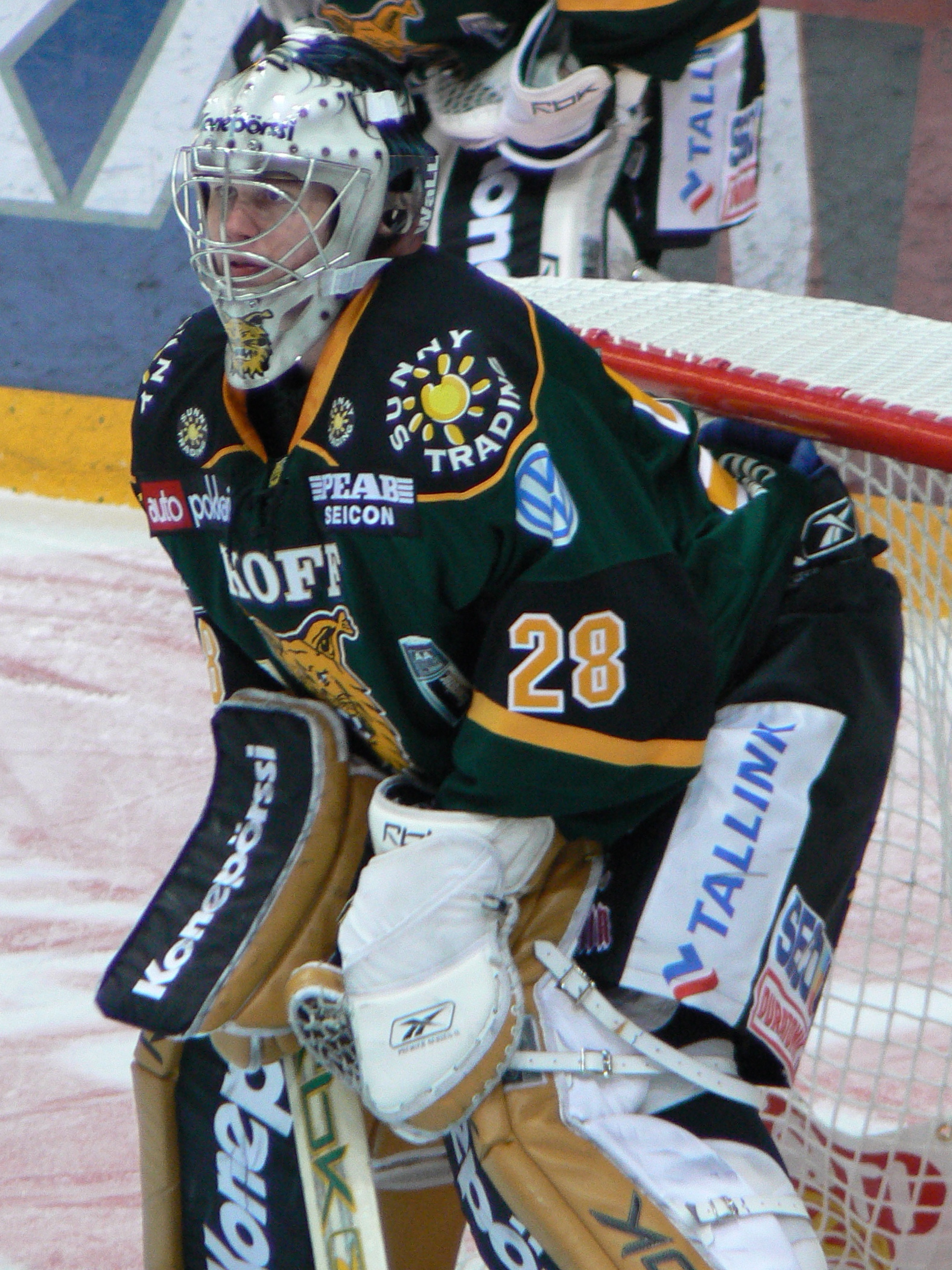 Finnish ice hockey goaltender Hannu Toivonen playing for Ilves Tampere in September, 2008